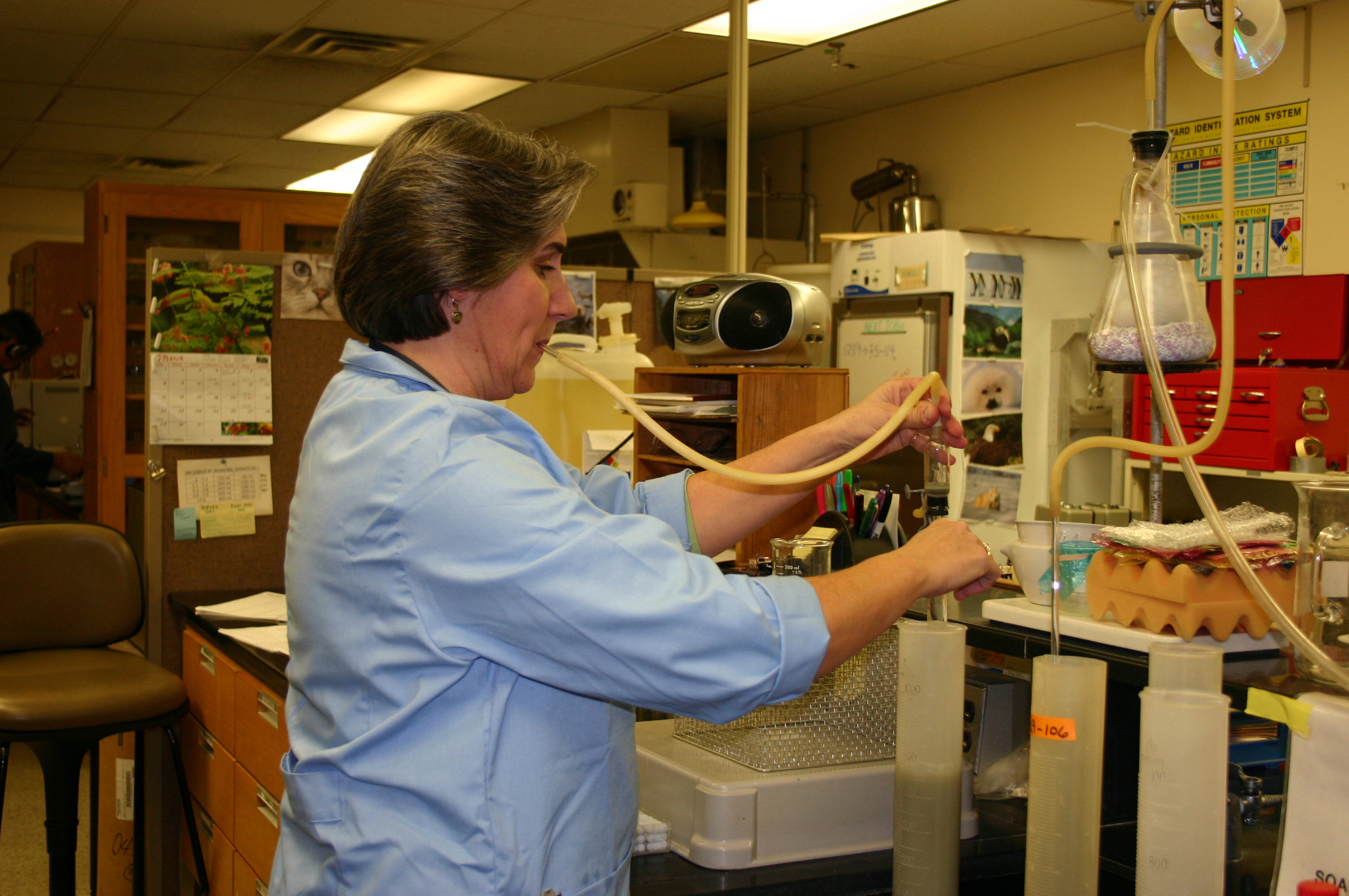 STENNIS SPACE CENTER, Miss. (March 17, 2009) Navy civilian Cecelia Spiering, a biologist at the Naval Oceanographic Office, takes an aliquot of suspended sediment for grain size analysis. Naval Oceanographic Office geologists analyze the textural, chemical, physical, acoustic and engineering properties of ocean bottom sediment samples and apply the resultant characteristics data to Navy requirements. Because of their ongoing collection and analysis efforts, the laboratory harbors one of the most extensive and respected collections of marine sediments data in the world. (U.S. Navy photo by Public Affairs Specialist Shannon M. Breland/Released)